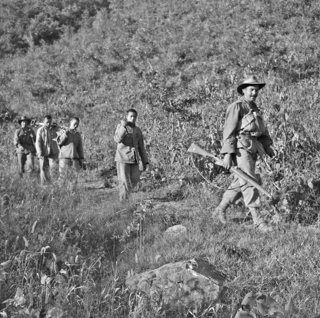 AWM caption: Korea. October 1951. In the UN Forces October offensive, Australian troops were prominent among the Commonwealth Division troops who spearheaded the UN advance. Chinese casualties were heavy, and these three prisoners of war (POWs), walking between two unidentified Australian soldiers, were wise enough to surrender. They are leaving the front line and making their way to the rear echelon area. The Australian soldiers are from the 3rd Battalion, The Royal Australian Regiment (3RAR).